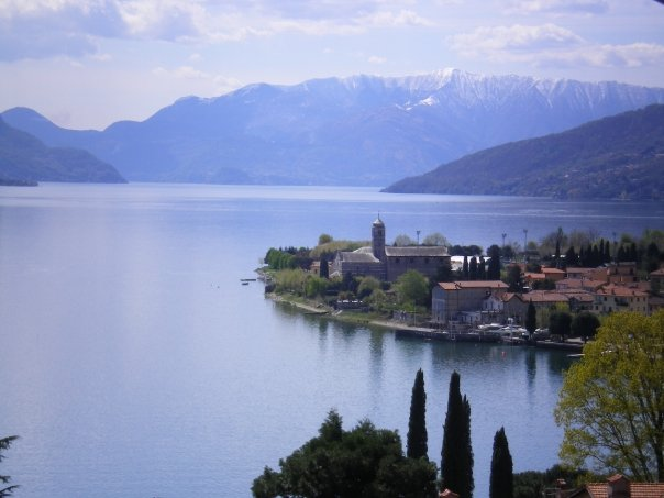 Gravedona, lake Como, Italy